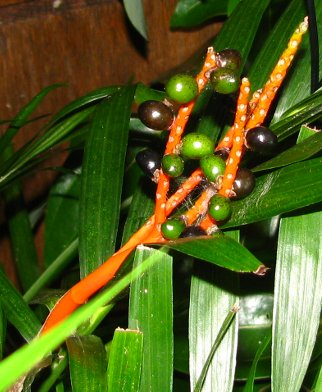 Cataractarum Palm growing seeds